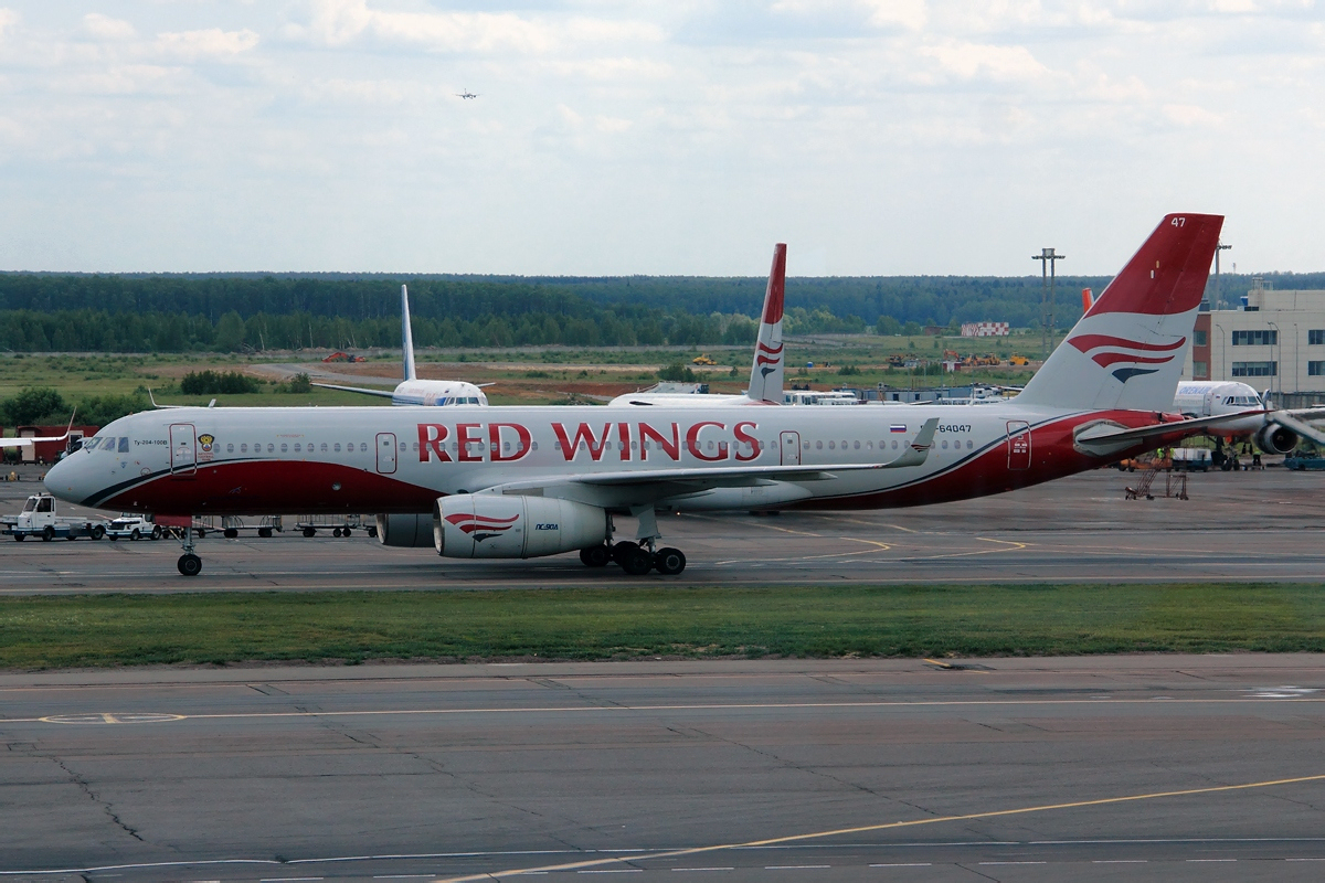 Red Wings Airlines Tupolev Tu-204-100V